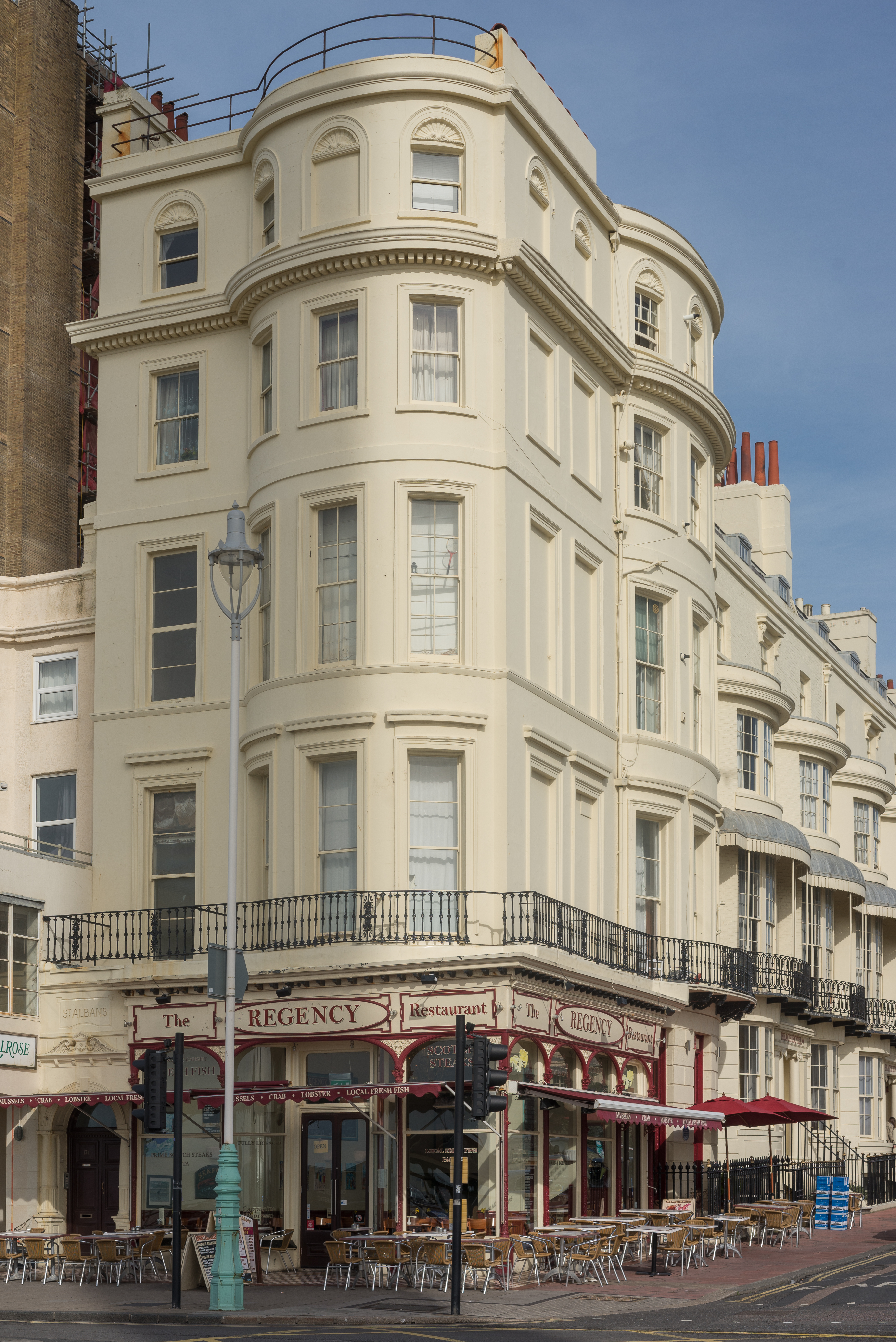 131 King's Road, Brighton, City of Brighton and Hove, England. This building is at the southwest corner of Regency Square, and was built between 1828 and 1830. Listed at Grade II* by English Heritage (IoE Code 482002).